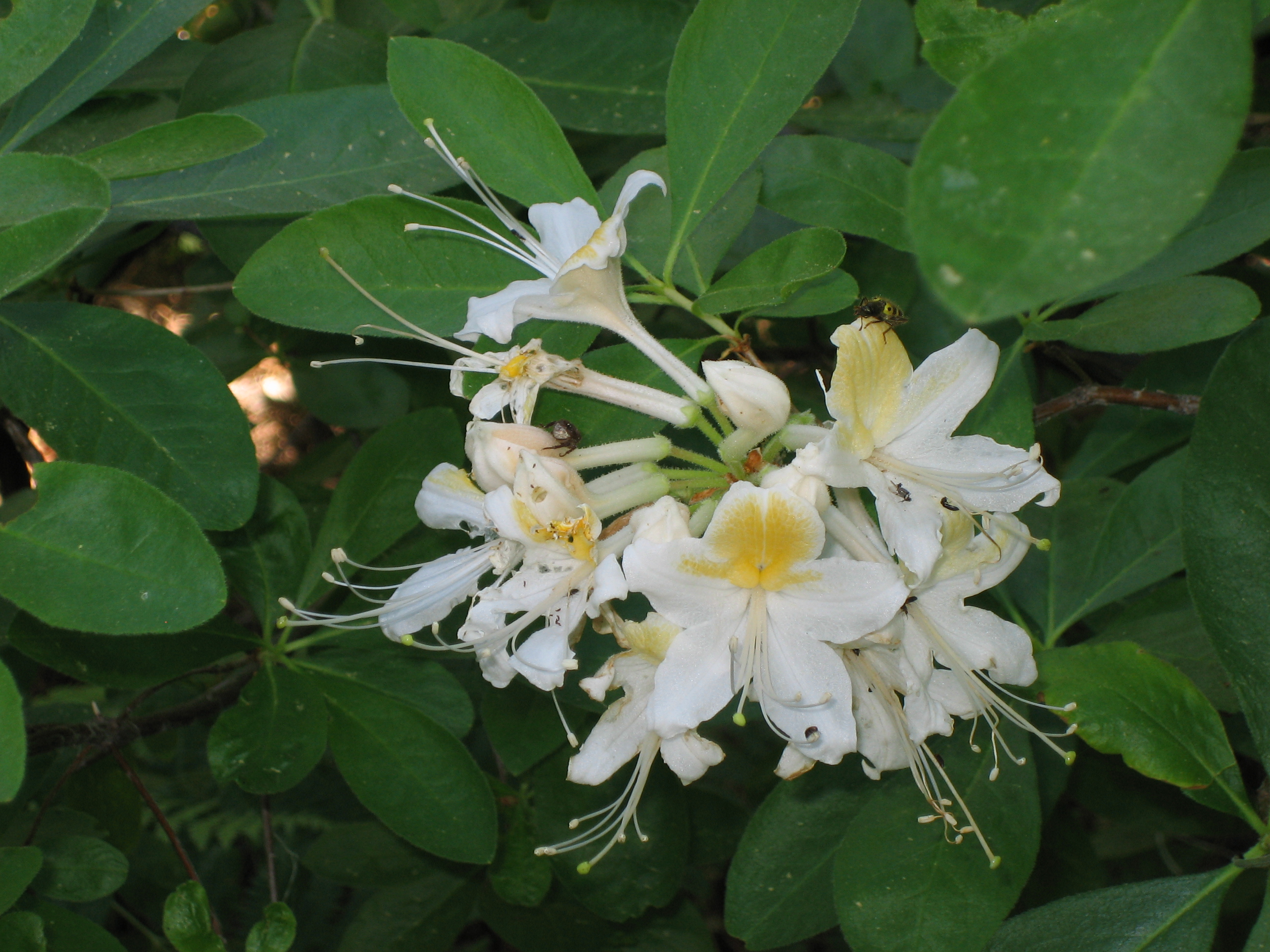 Rhododendron occidentale, western Azalea. A flowering shrub native to western North America. Taken in Yosemite National Park.